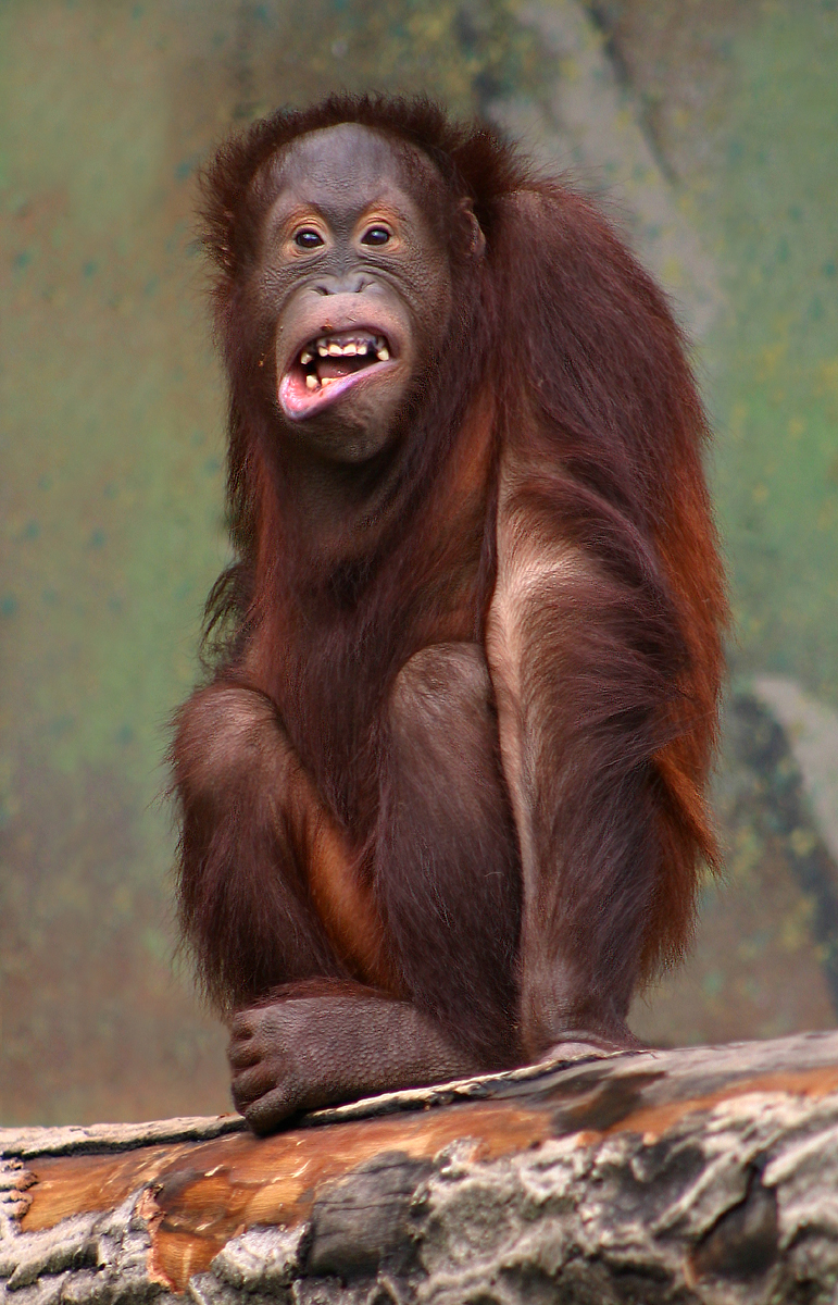 Orangutan in Aalborg Zoo, Denmark